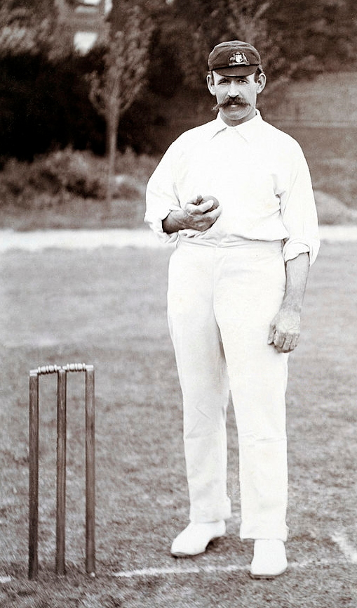 William Howell, Australian cricket team, circa 1899.